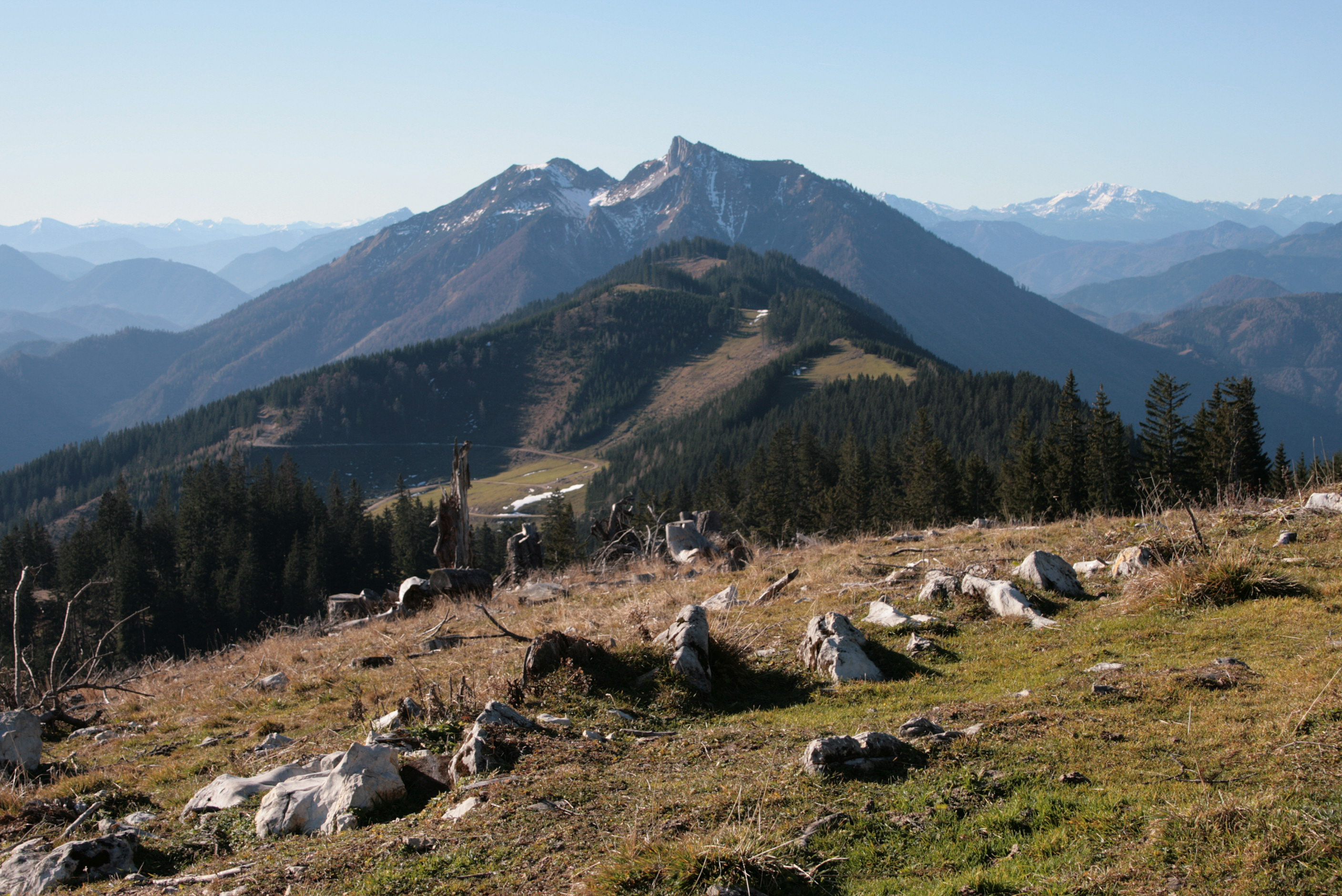 View from the Könisberg (Durnhöhe) to the Voralpe in the Ybbstaler Alpen, Austria